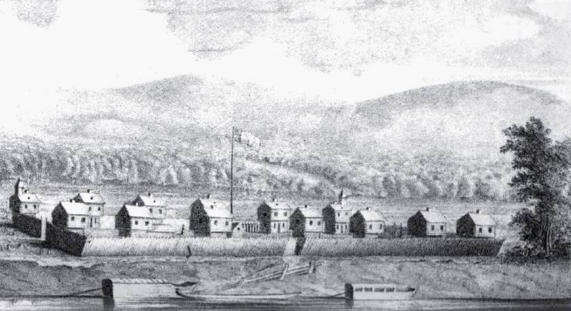 The Farmer's Castle fortification at the Belpre, Ohio settlement. Construction began during January 1791 following the Big Bottom massacre and the start of the Northwest Indian War. From the book by S. P. Hildreth: Pioneer History: Being an Account of the First Examinations of the Ohio Valley, and the Early Settlement of the Northwest Territory, H. W. Derby and Co., Cincinnati, Ohio (1848). Illustration plate located between pp. 362-63. ColWilliam (talk) 20:52, 26 June 2011 (UTC)